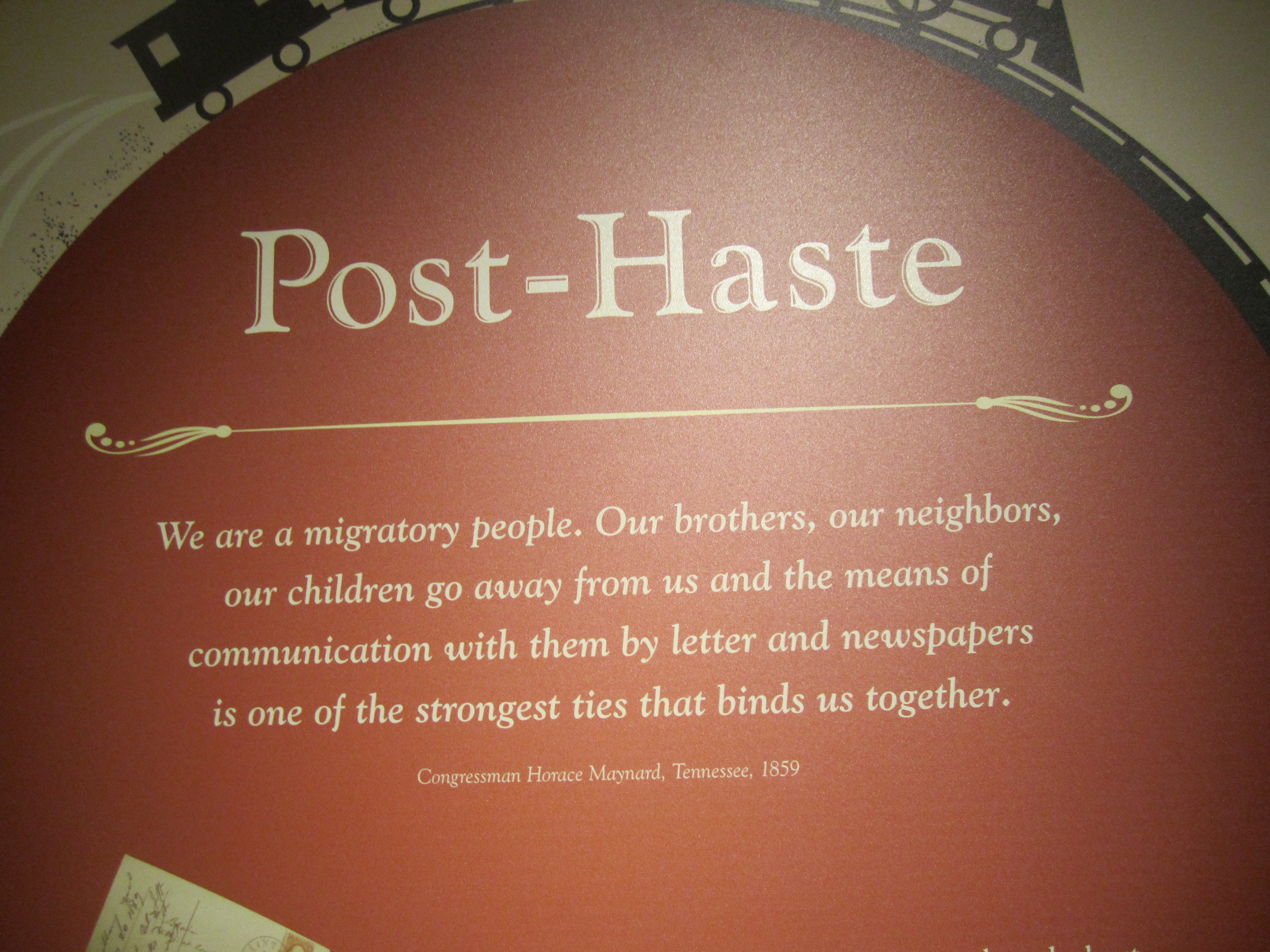 With Canon camera, I took photo at National Postal Museum of then Rep. Horace Maynard's 1859 quote about mail service.